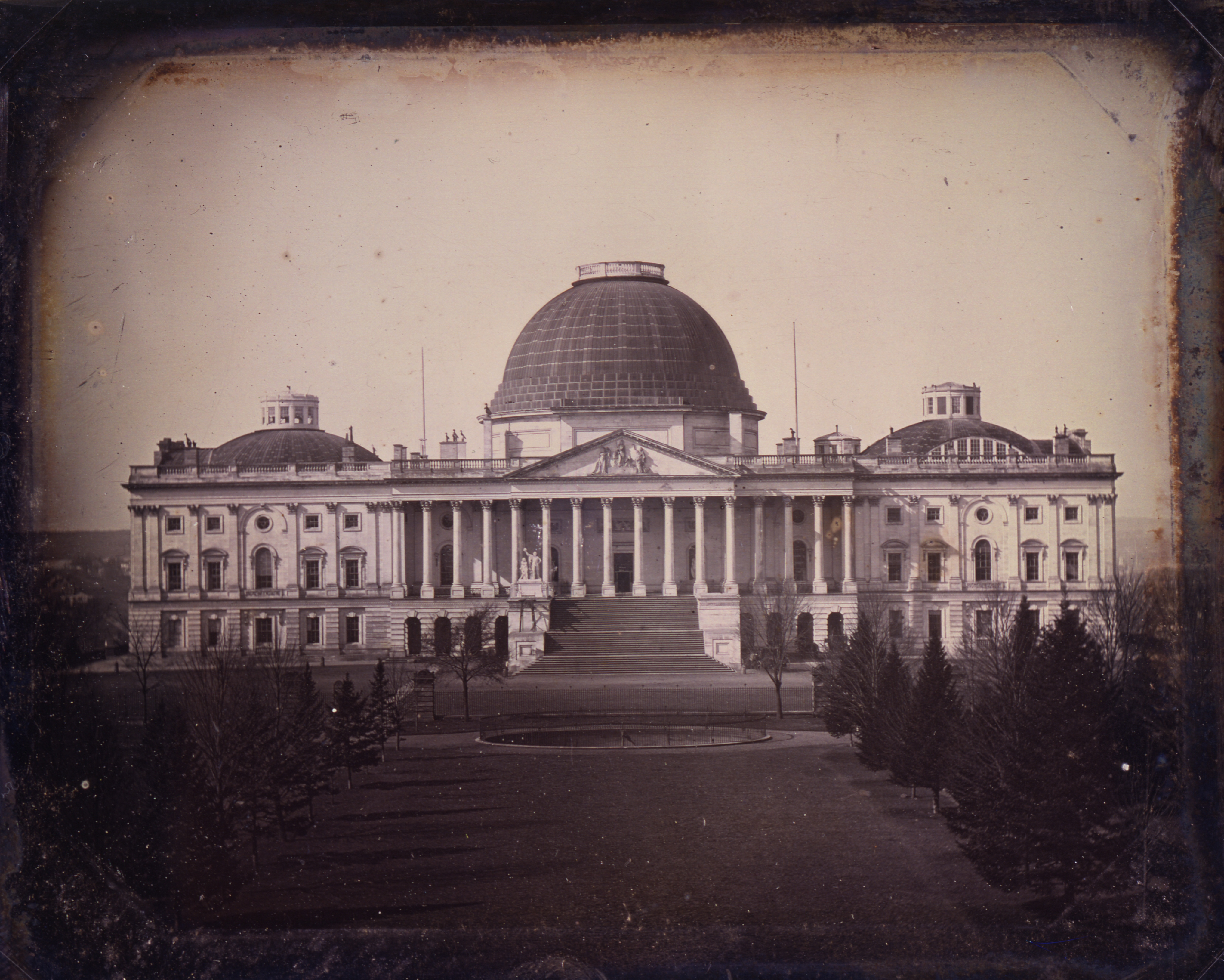 Early photograph of United States Capitol, Washington, D.C., east front elevation, circa 1846, by John Plumbe (1809-1857) photographer.